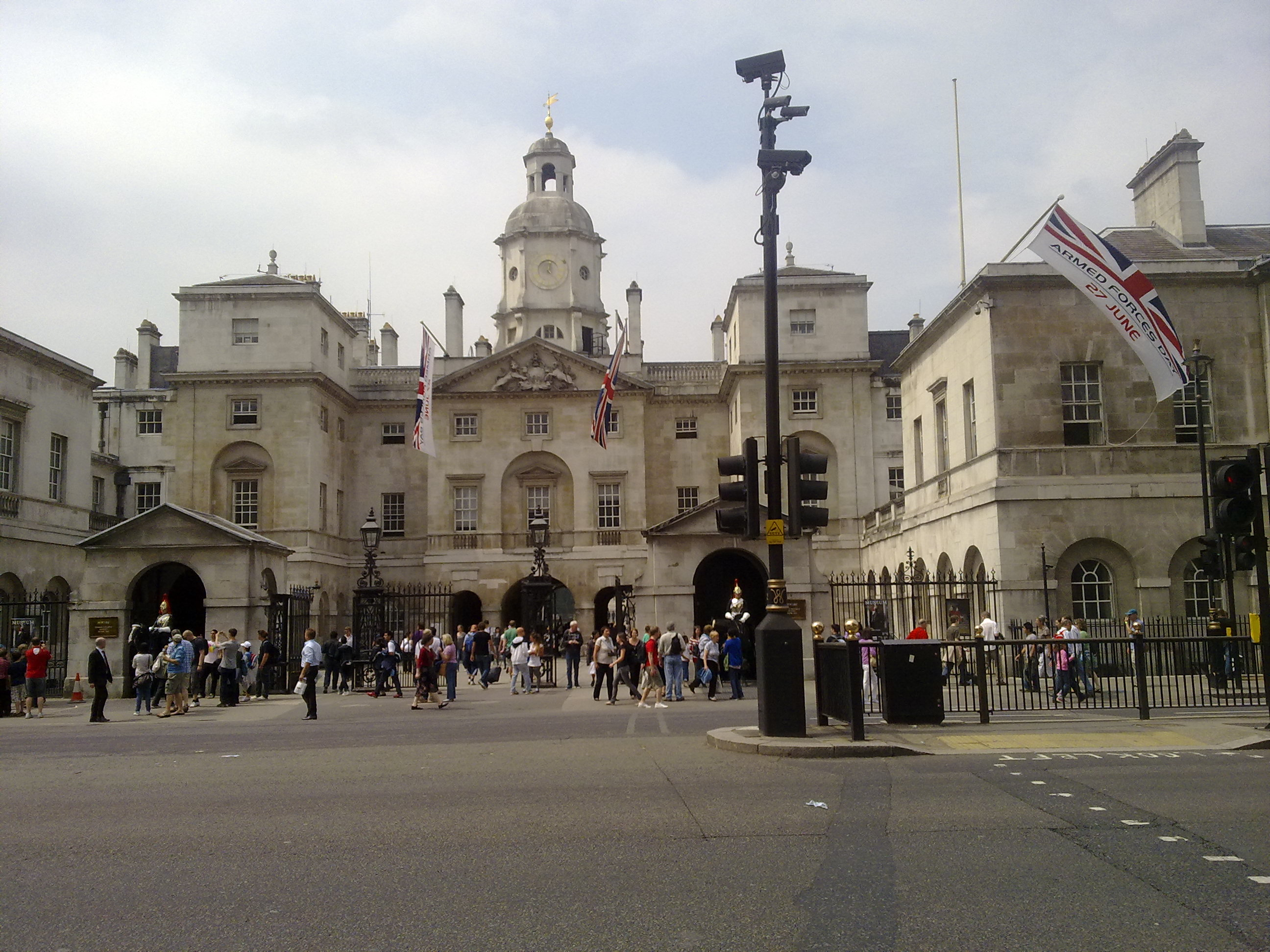 The front of the Horse Guards (building) as viewed from Whitehall.